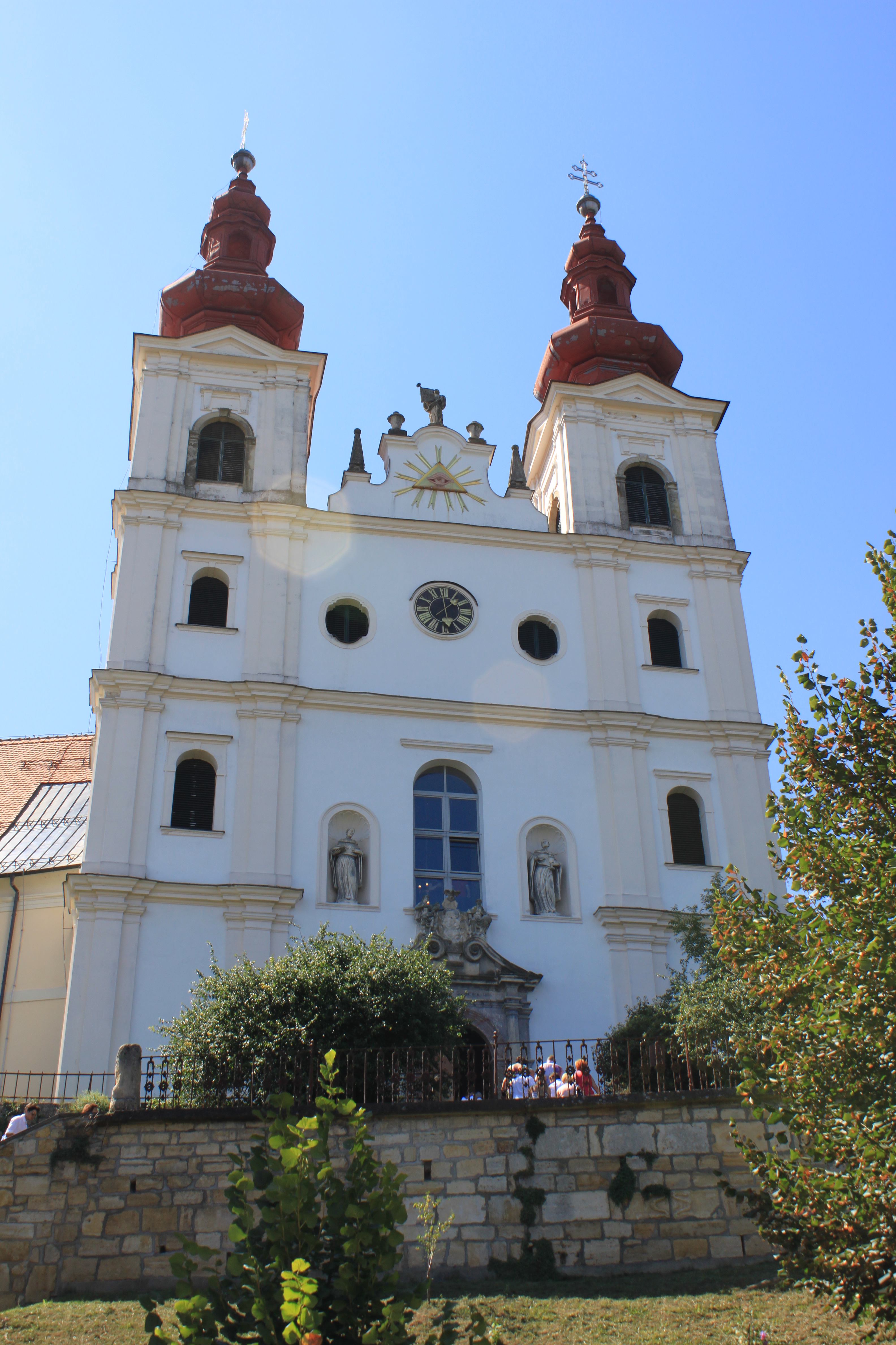 Church Holy Trinity; Heilige Dreifaltigkeit in den Windischen Büheln (Sveta Trojica v Slovenskih Goricah); Slovenia. View to the main entrance, direction south.